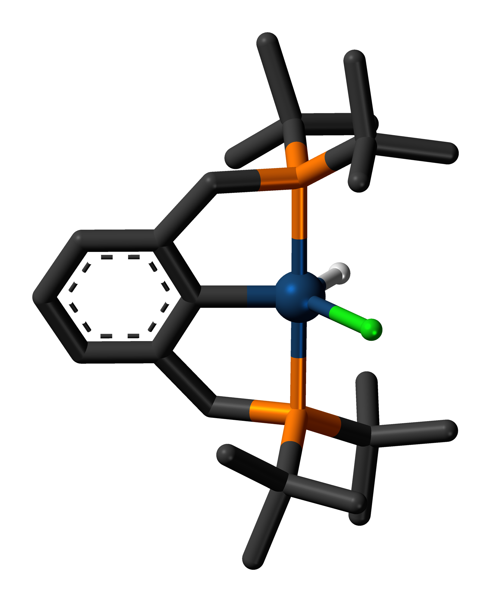 Skeletal stick model (non-coordinating hydrogens omitted) of an iridium PCP pincer complex. Colour code: Carbon, C: black Hydrogen, H: white Phosphorus, P: orange Chlorine, Cl: green Iridium, Ir: dark blue